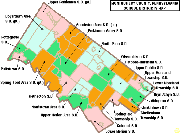 Map of Montgomery County, Pennsylvania, United States Public School Districts